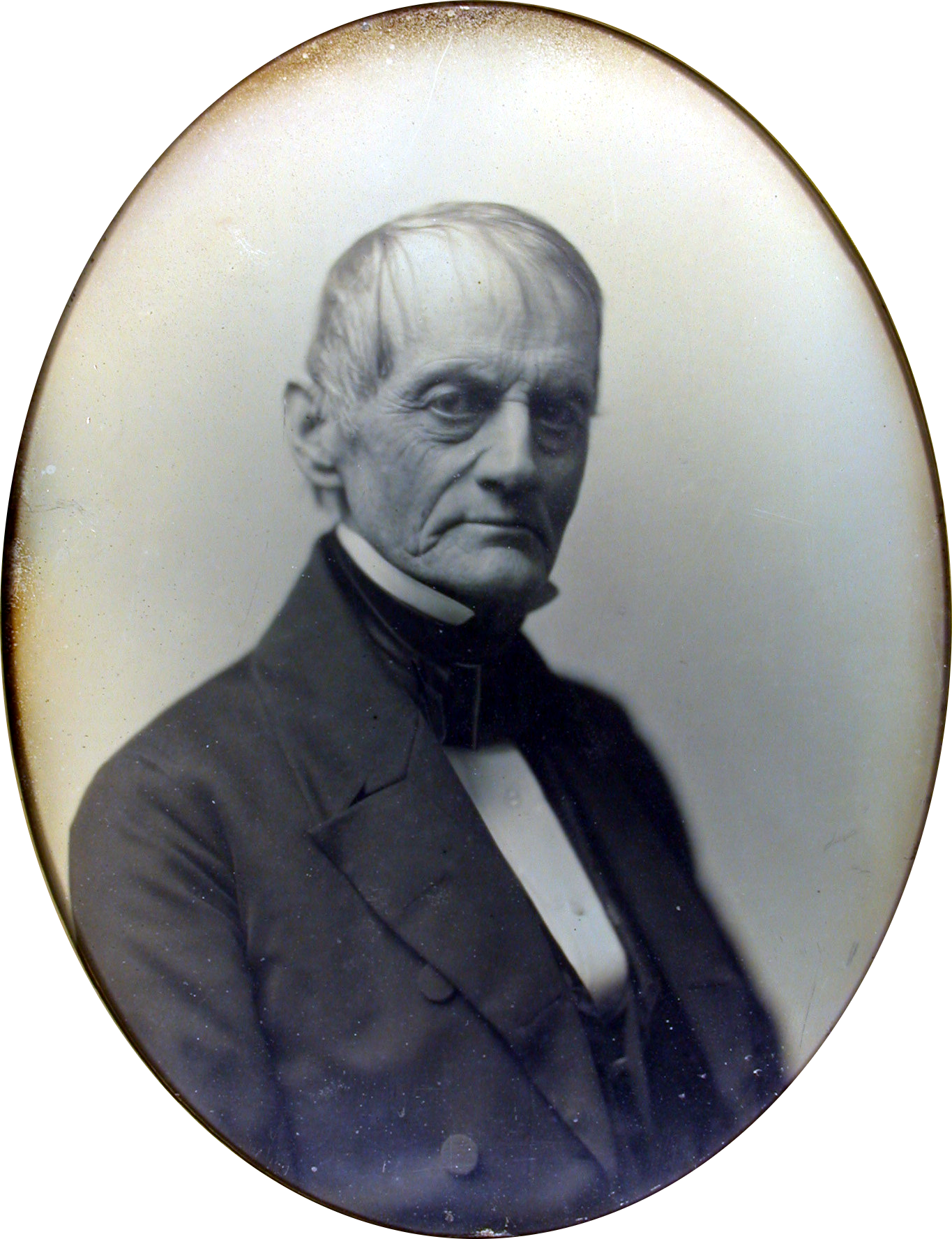 Whole plate daguerreotype of William Appleton (1786-1862)